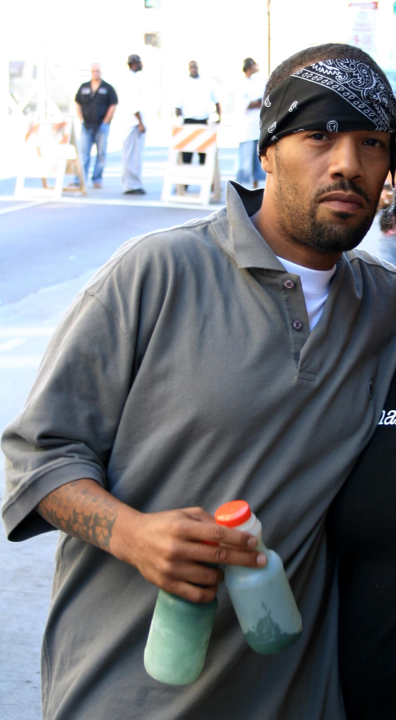 Redman at the X-Games in Los Angeles, California